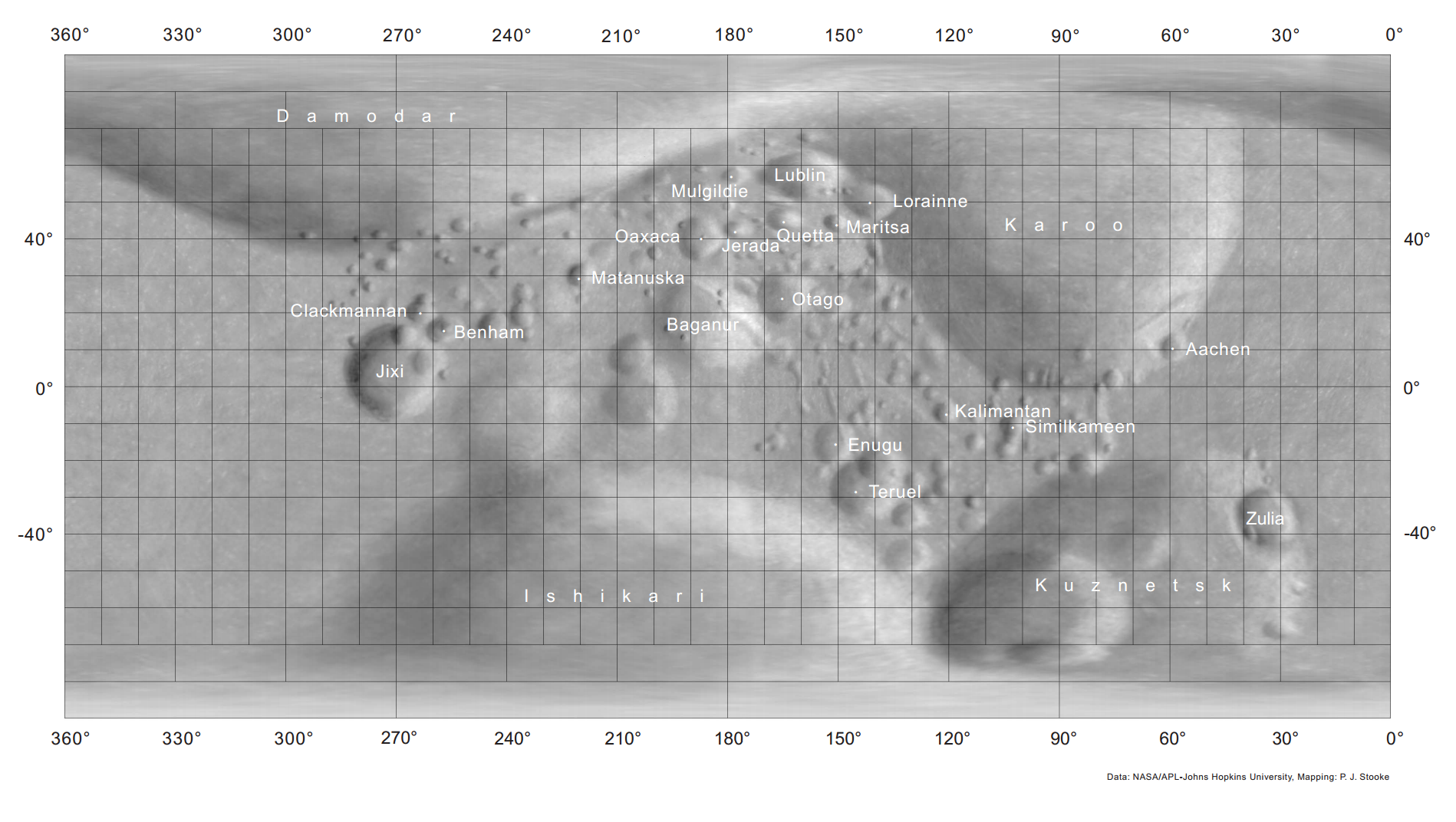 This map, assembled by NASA and APL, has all IAU accepted crater names labeled.